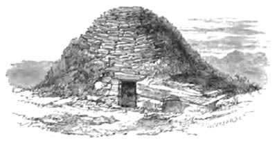 Irish Cell